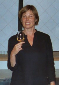 Mischa Billing (born 1966), Swedish sommelière and teacher of wine-knowledge at "Restauranghögskolan" in Grythyttan, Sweden. Photographer: Fredrik Tersmeden 2004